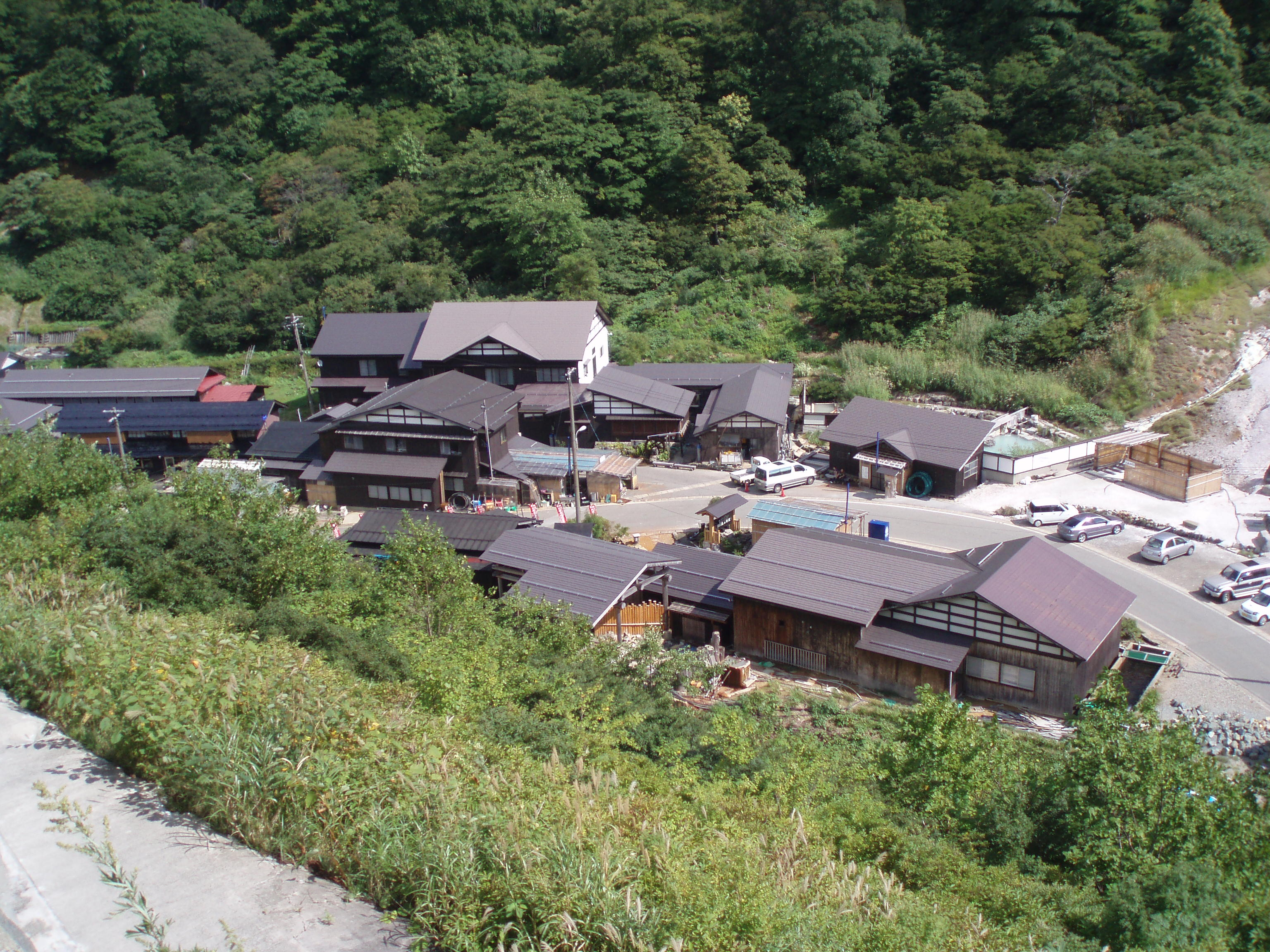 Image of Doroyu Onsen, Yuzawa, Akita, Japan